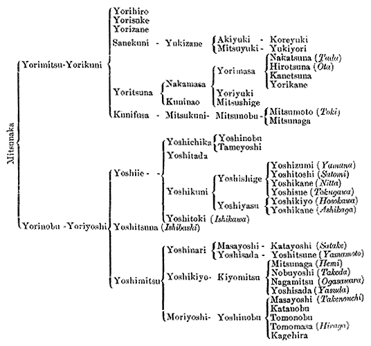 A family tree of the Seiwa Genji warrior clan of feudal Japan. Being published in 1910, this book's copyright has expired and has entered the public domain.